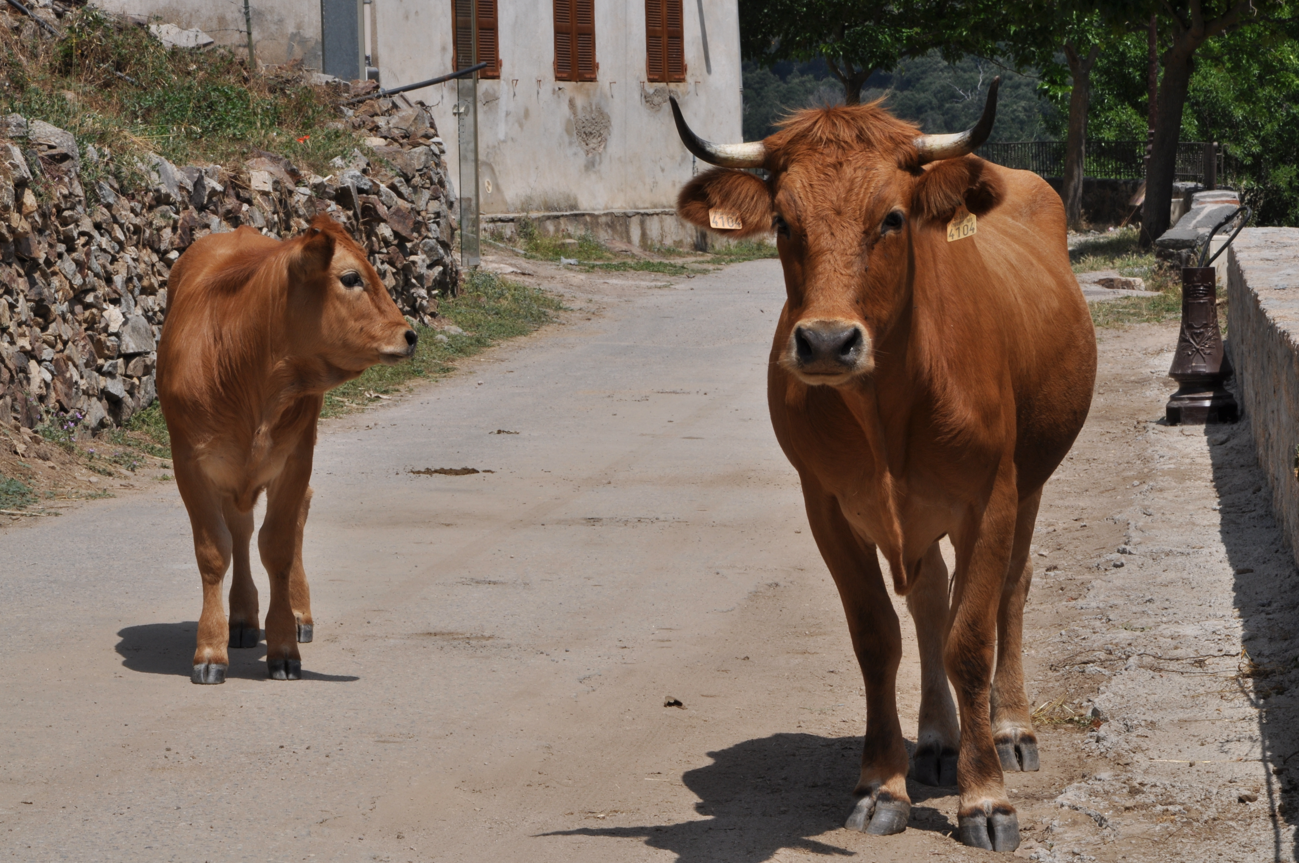 Cows in Mausoléo